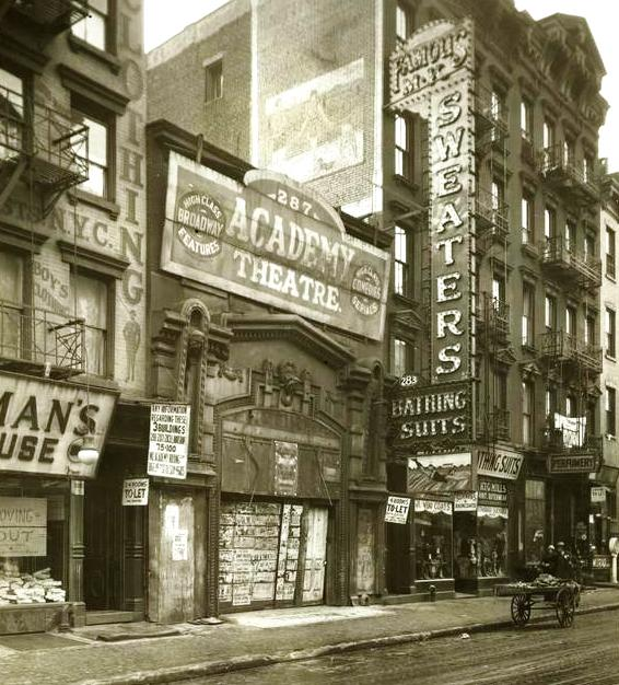 East Houston Street in Manhattan, New York City, in the 1920s. Image Title: East Houston St., NYC. Alternate Title: East Houston Street, New York City. Creator: Browning -- Photographer Published Date: [192-] Specific Material Type: Prints Item Physical Description: 1 photographic print : b&w ; 24 x 18 cm. (9 1/4 x 7 in.) Notes: Written on image: "Moving picture theatres." Written on mount: "Photo, Browning, ca. 1920s." Source: Mid-Manhattan Picture Collection / New York City -- streets -- A-L Source Description: 1 folder (22 pictures) Location: Mid-Manhattan Library / Picture Collection Catalog Call Number: PC NEW YC-Stre-(A-L) Digital ID: 809838 Record ID: 705774 Digital Item Published: 10-28-2005; updated 8-10-2010